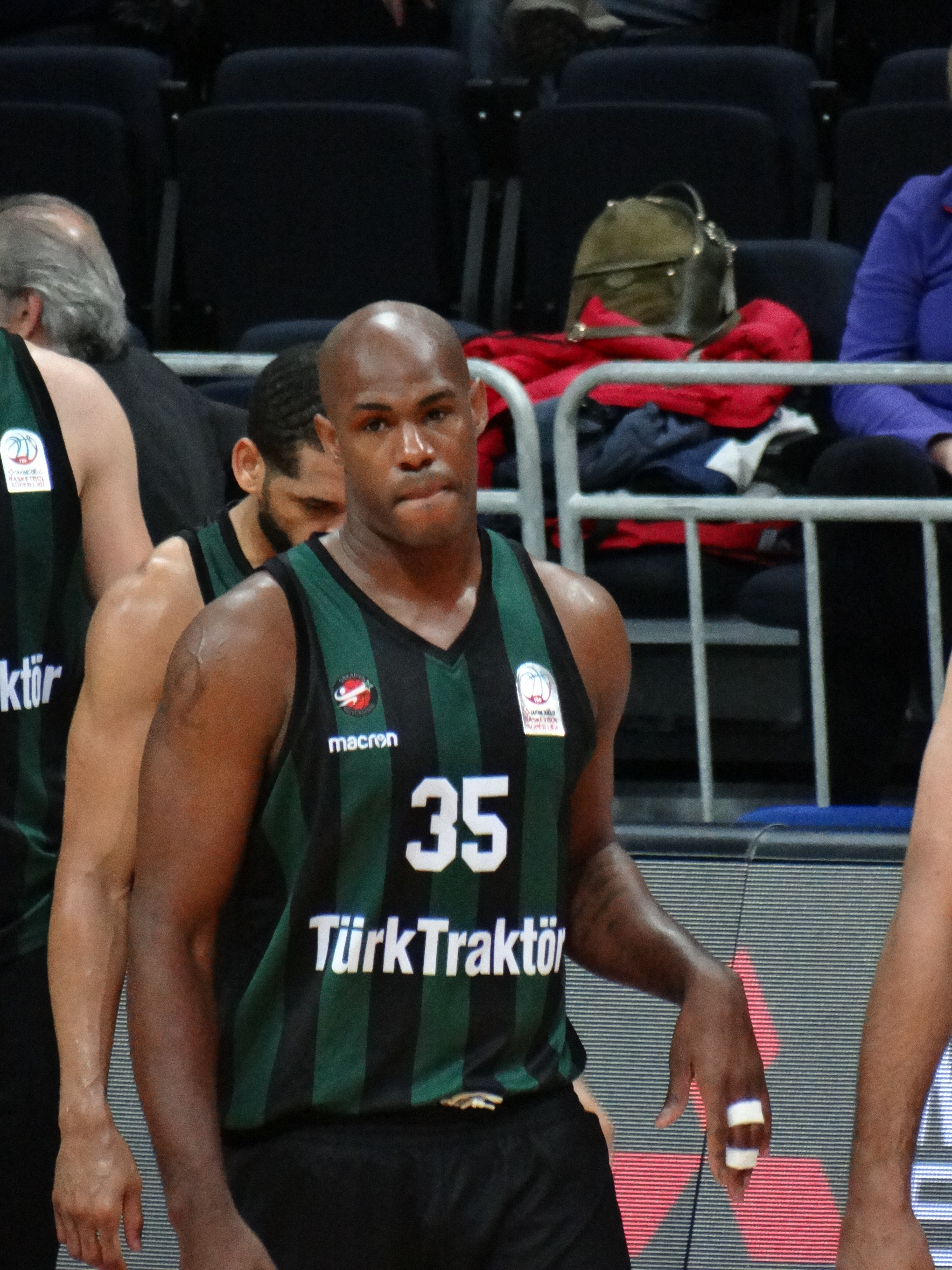 Ersin Dağlı 35 Sakarya Büyükşehir Belediyespor 20180107